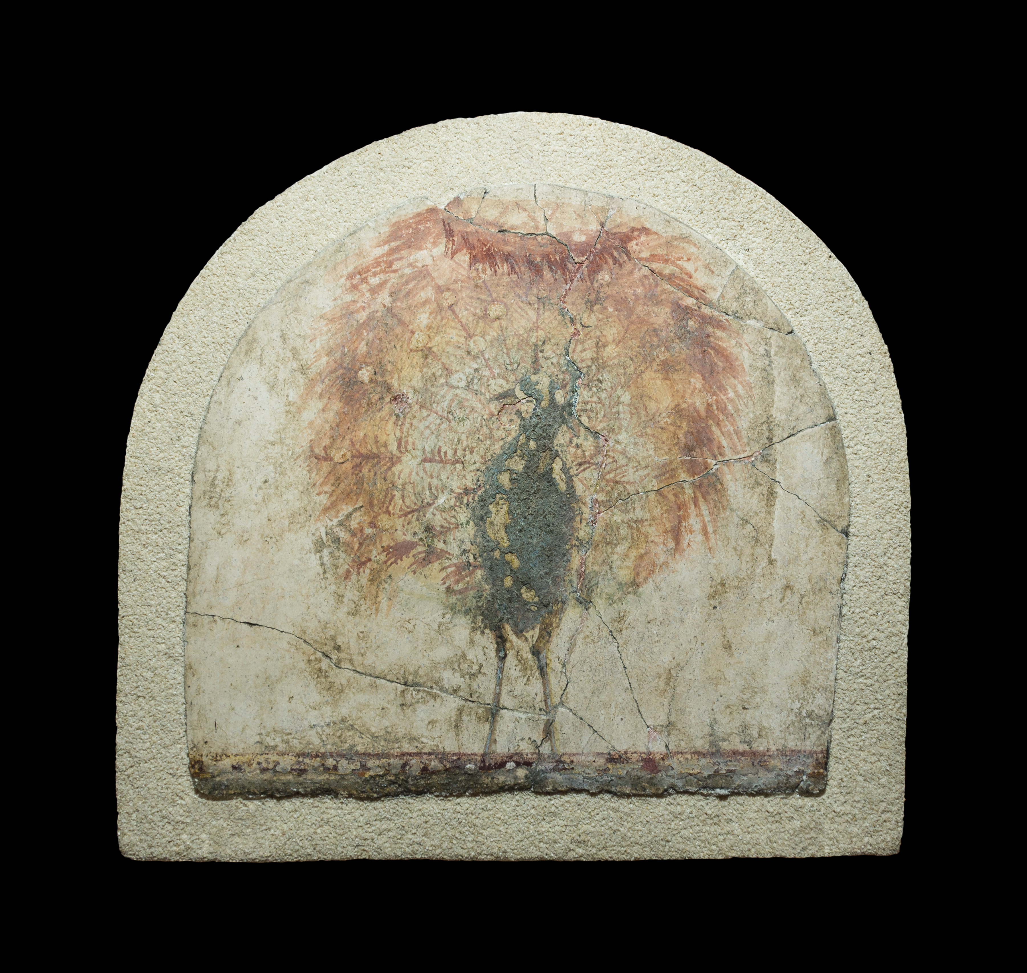 Fresco of a peacock, from Pompeii, in antiquarium of Boscoreale, Italy.